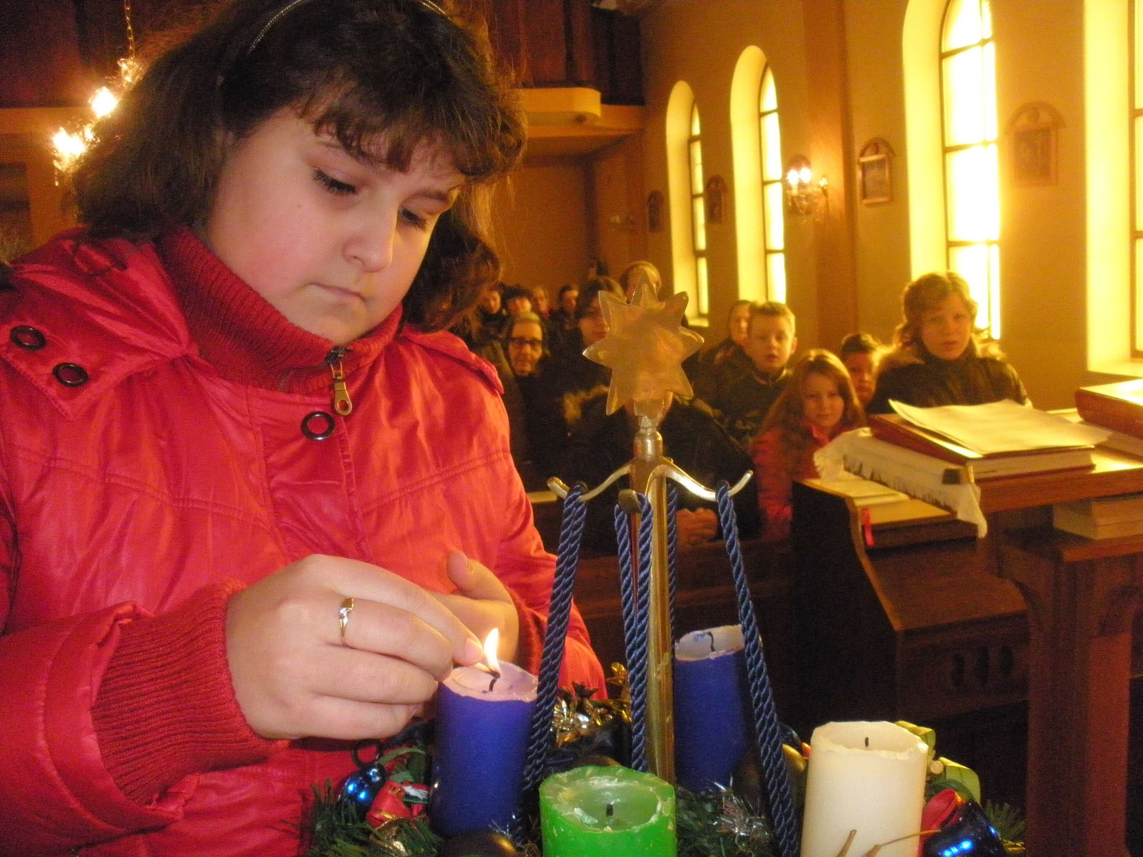 Child lightes candles on Advent-wreath